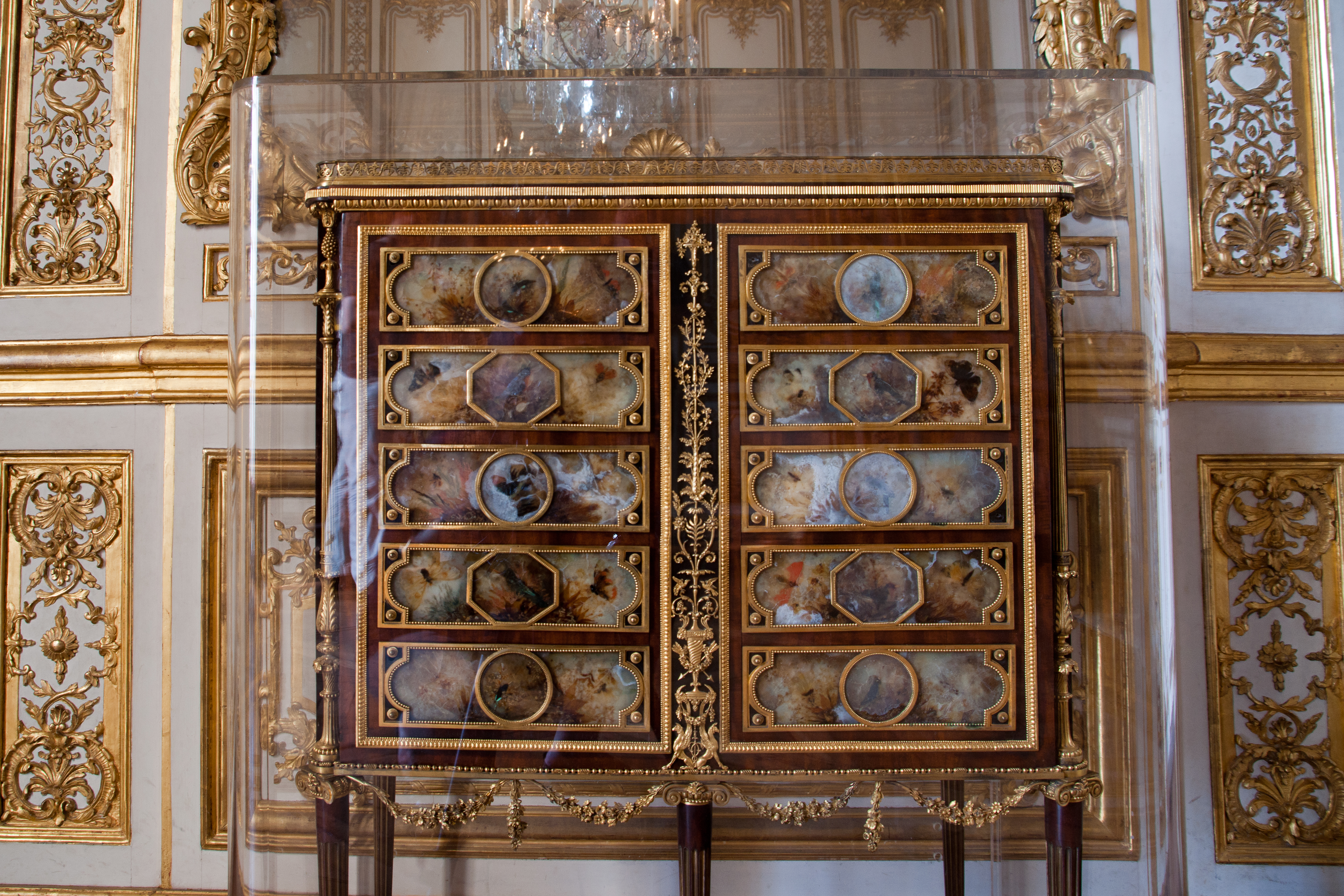 Ebony and mahogany cabinet, covered in porcelain plaques by Guillaume Benneman in the Pièce de la vaisselle d'or ("Golden Dinnerware Room"), Petit appartement du roi in the Palace of Versailles